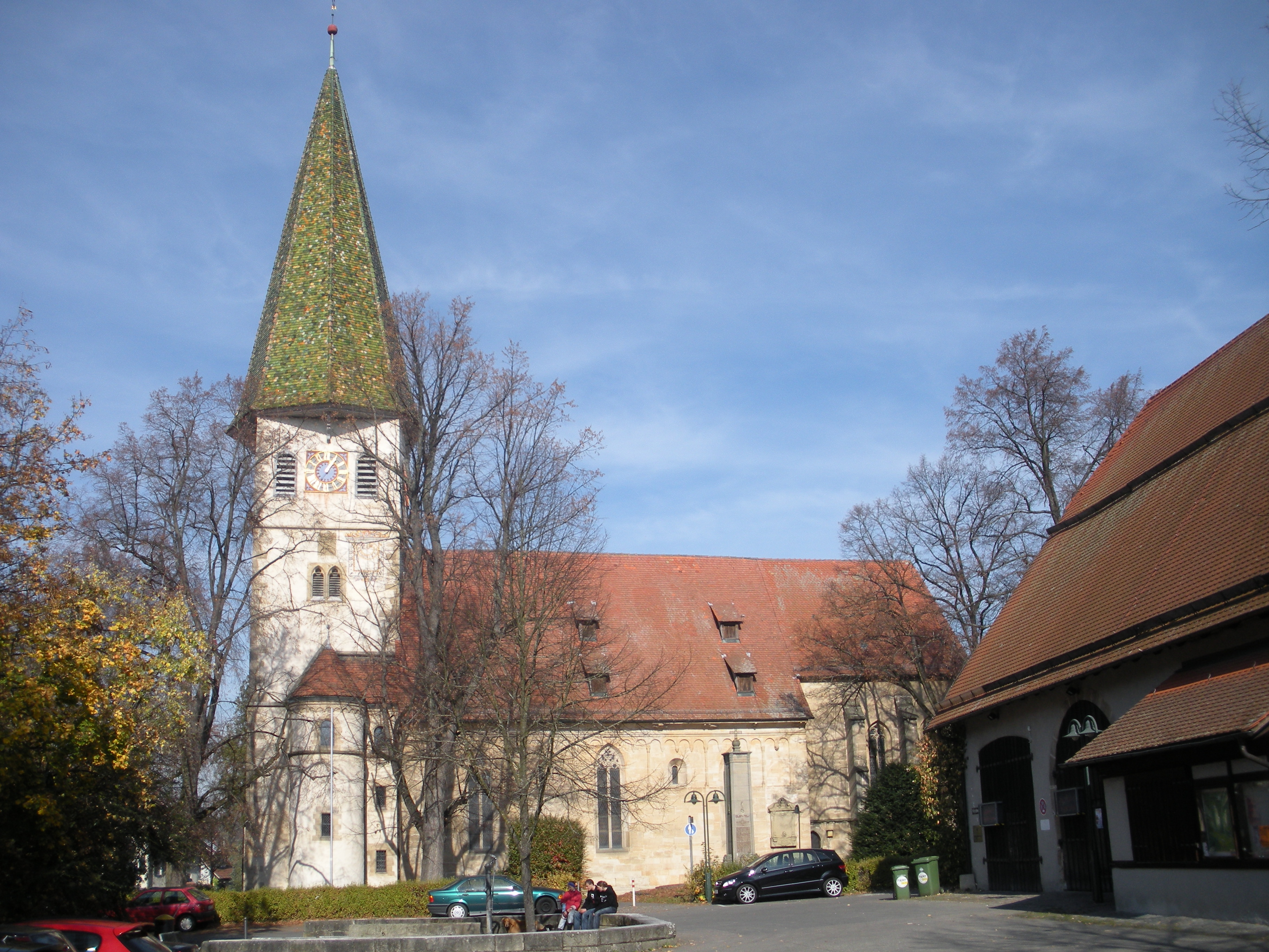 Protestant Church of Martin in Stuttgart-Plieningen